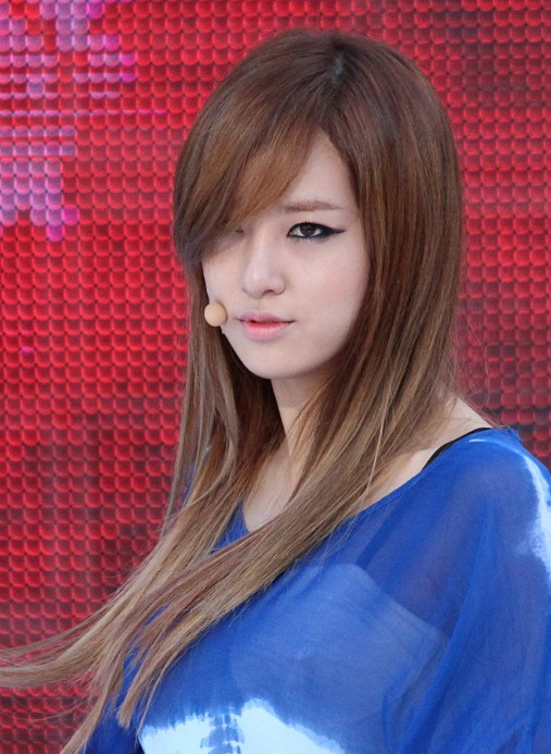 Lee Joo-yeon at Super M Concert, 28 July 2012